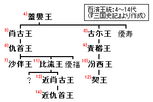 the geneology of Baekje( 4th King ~ 14th King) / 百済王系図(4代～14代)